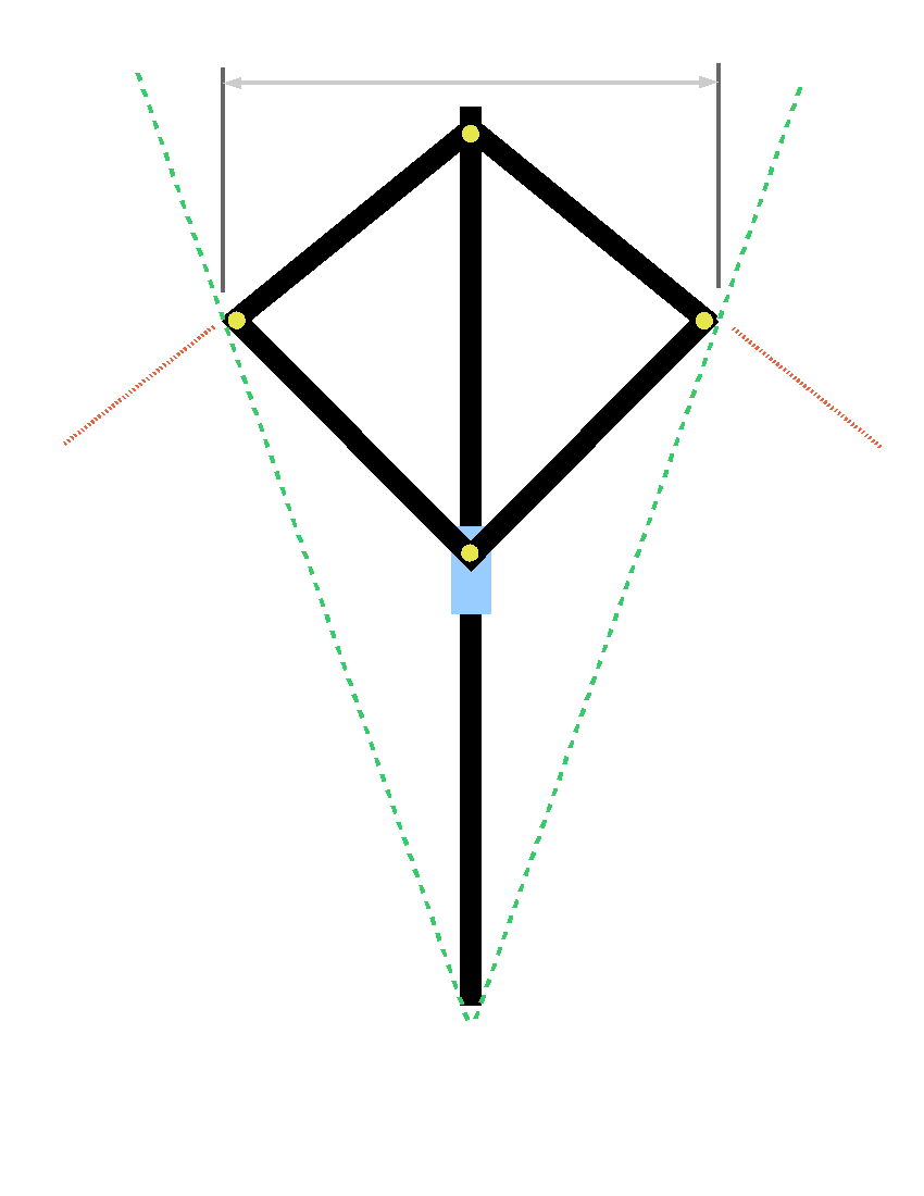 Drawing of a radio latino, a surveying and military engineering instrument. The red lines represent viewing angles from the outermost components and the green lines are viewing angles from the end to the outer points on the frame. The diagram leaves out the handle on the free end of the main rod. Invented in the 16th century.